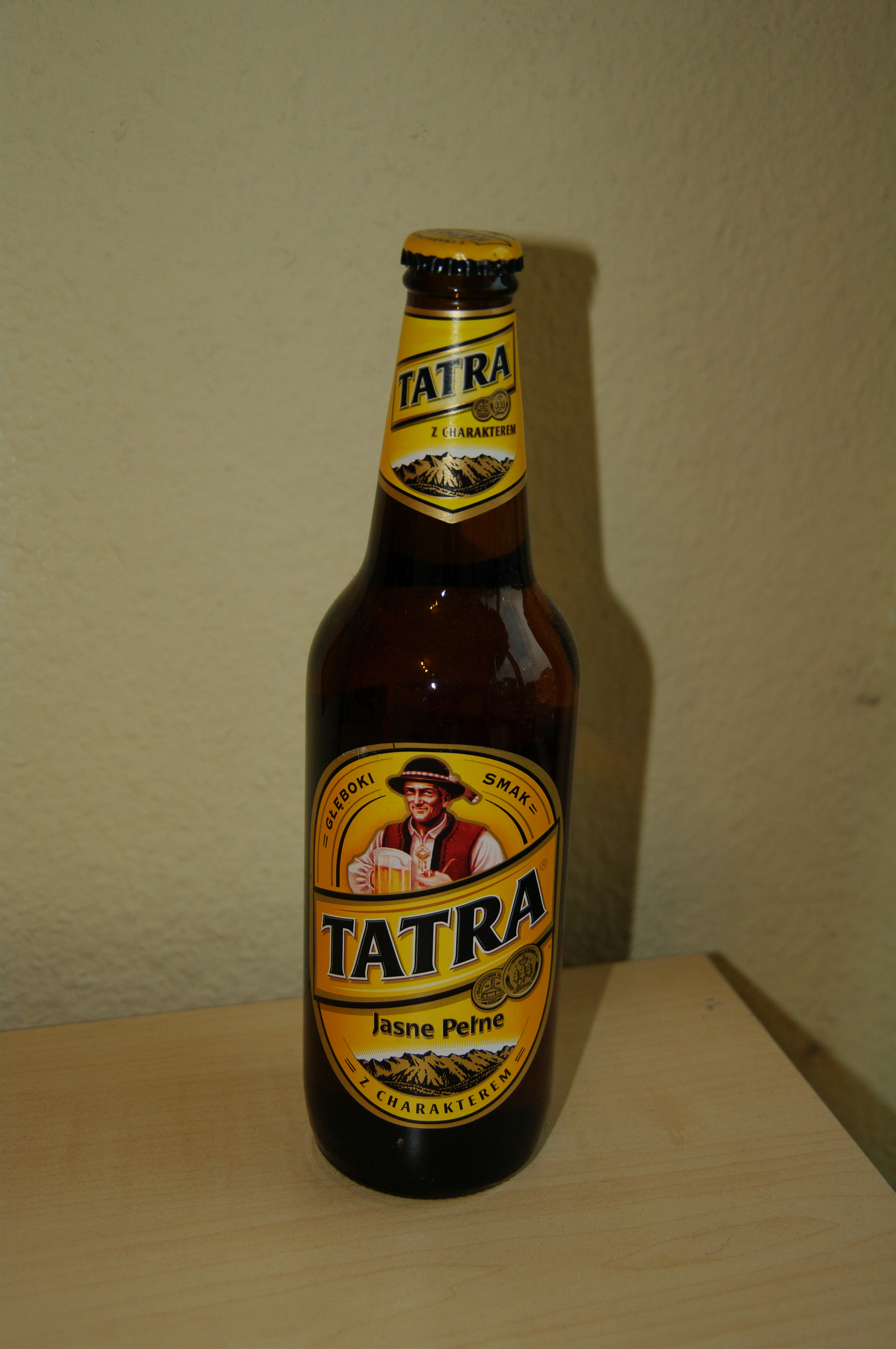 Tatra beer